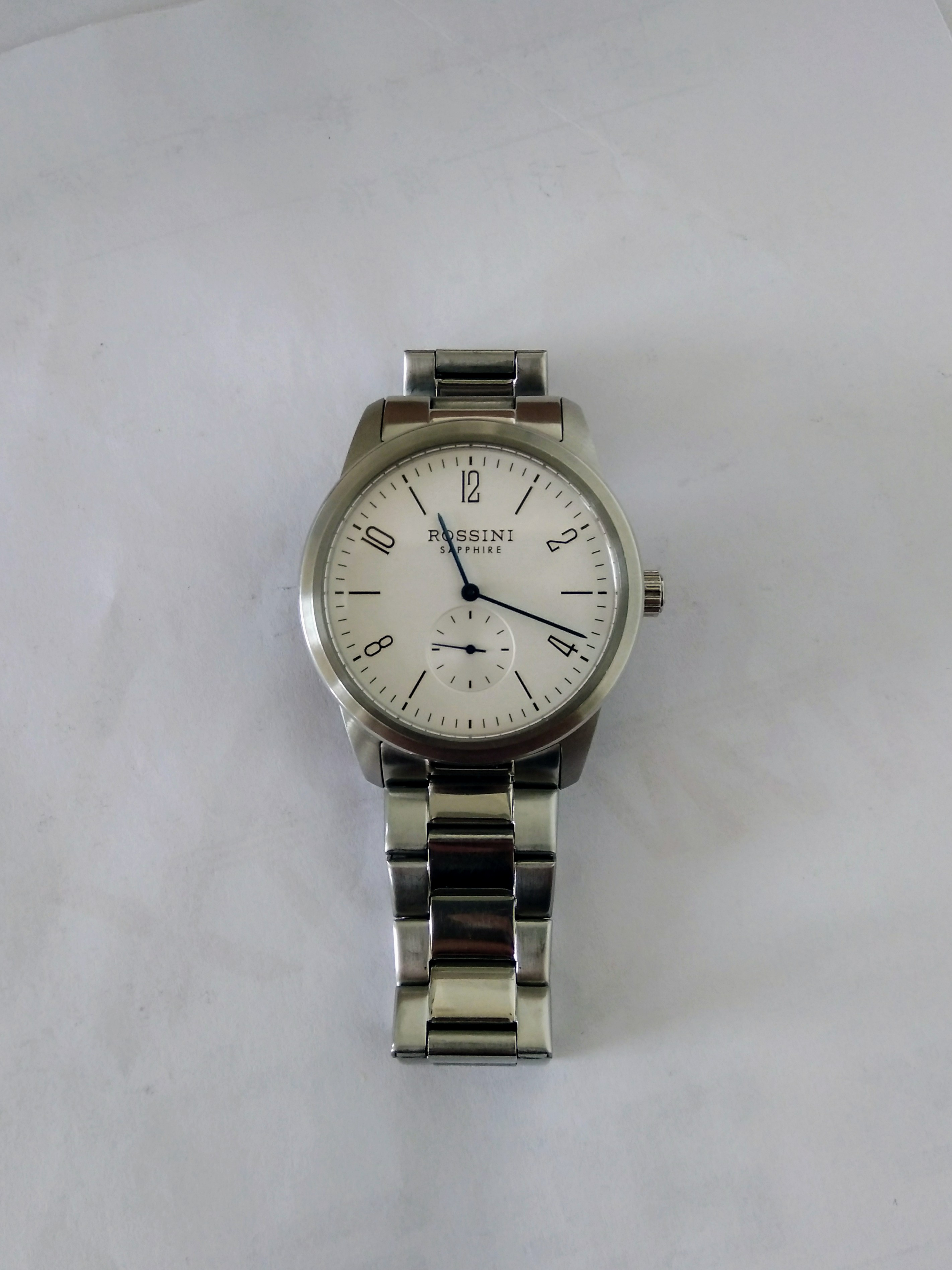 A Rossini watch 中文（中国大陆）: 一个罗西尼手表